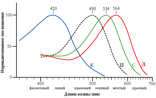 Russian translation of File:Cone-response.png plot.